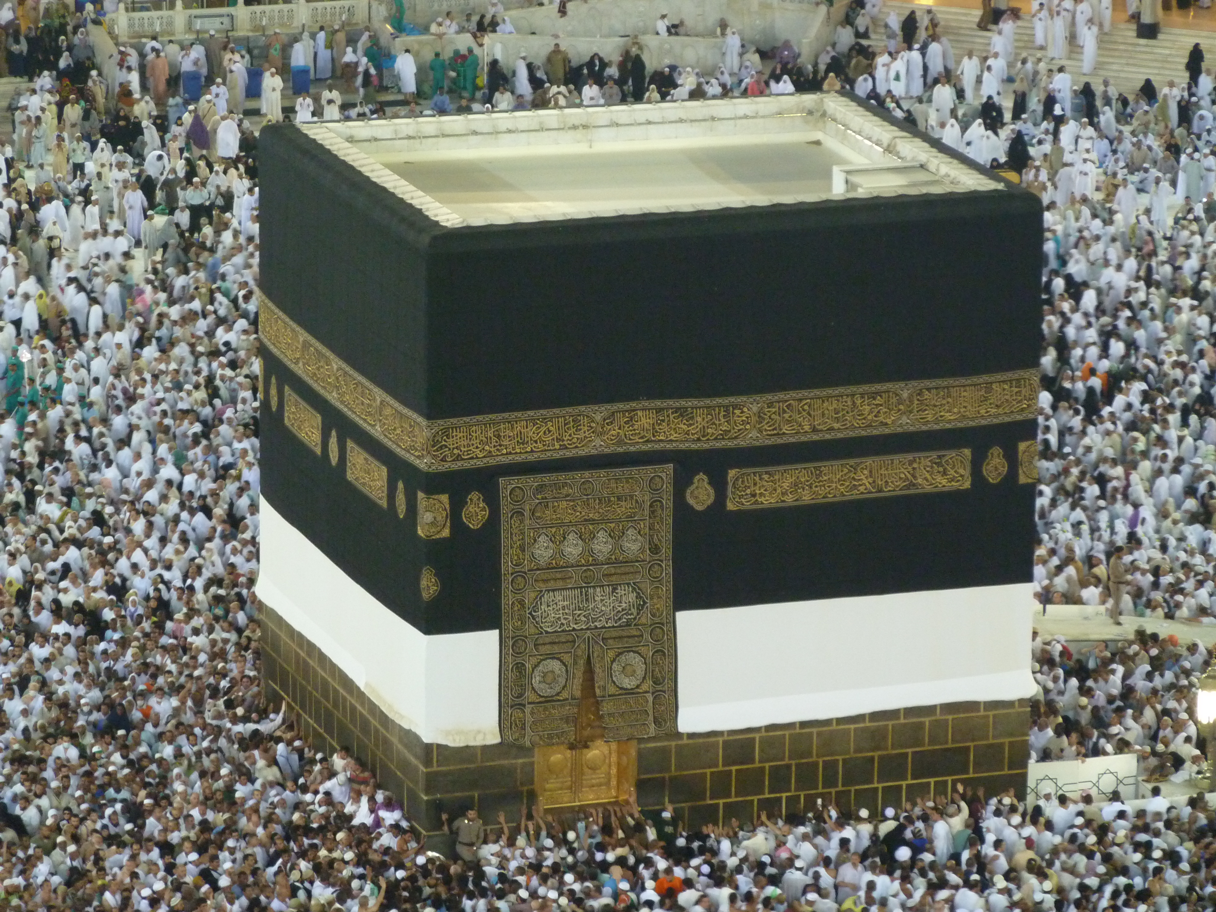 The Kaaba in the Masjid el Haram, Mecca, 2010